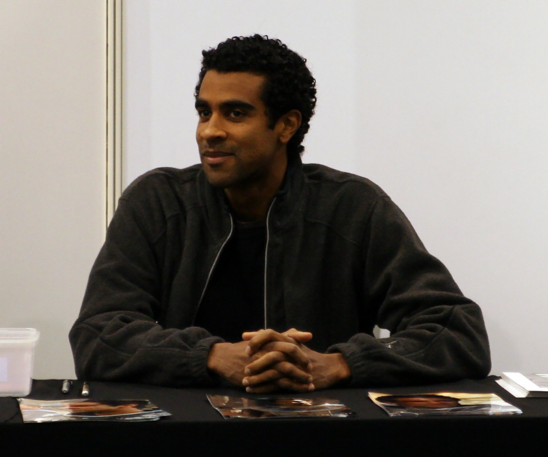 Actor Obi Ndefo at a London Expo event in 2006